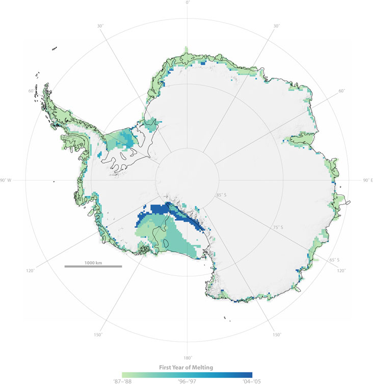 Image showing Antarctic snowmelt in various areas for the first time